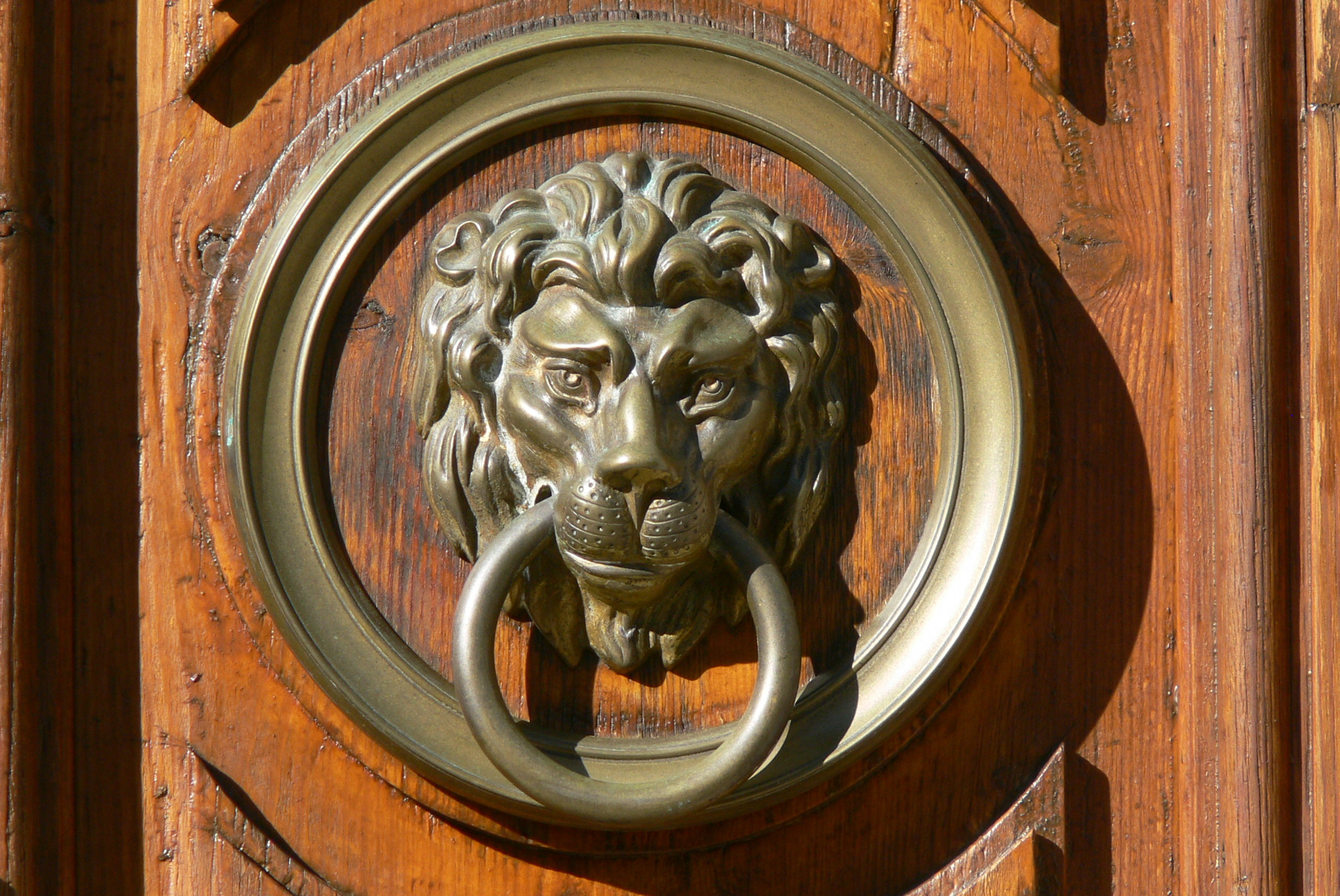 Haslach ( Upper Austria ). Marktplatz 37 - Door knocker.